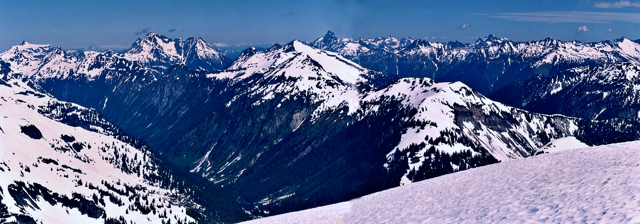 View looking north from Ruth Mountain in the North Cascades. Photo is two prints stitched together, July 1991. See annotations.